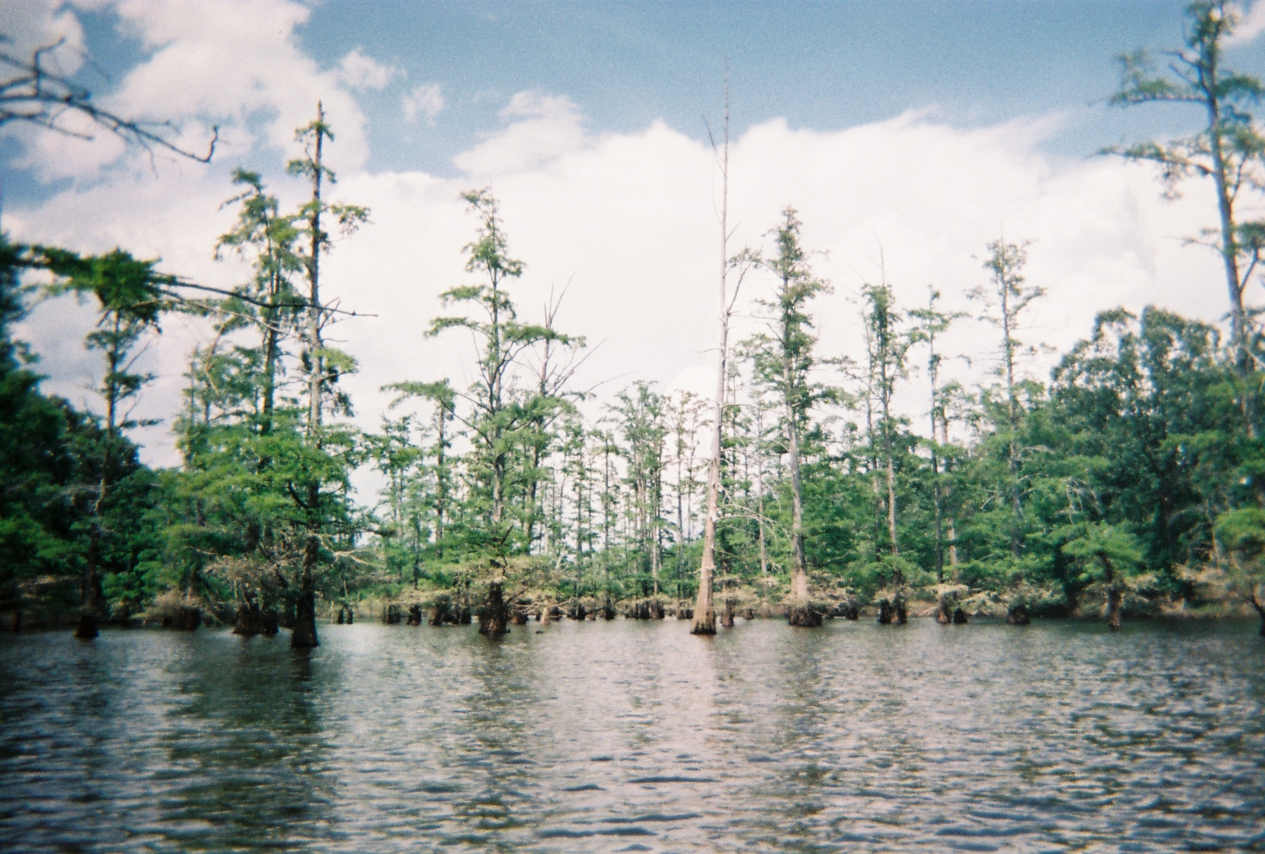 The entire western third of Kentucky is dotted with cypress and tupelo swamps, some small (just a few acres) some vast (thousands of acres). This is one of the latter at Ballard WMA, composed of nearly 9,000 acres.